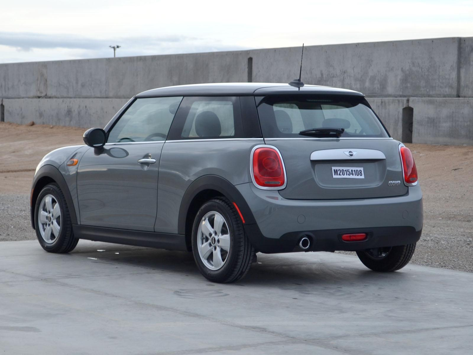 2015 MINI Cooper Hardtop 2 door, photographed in USA.